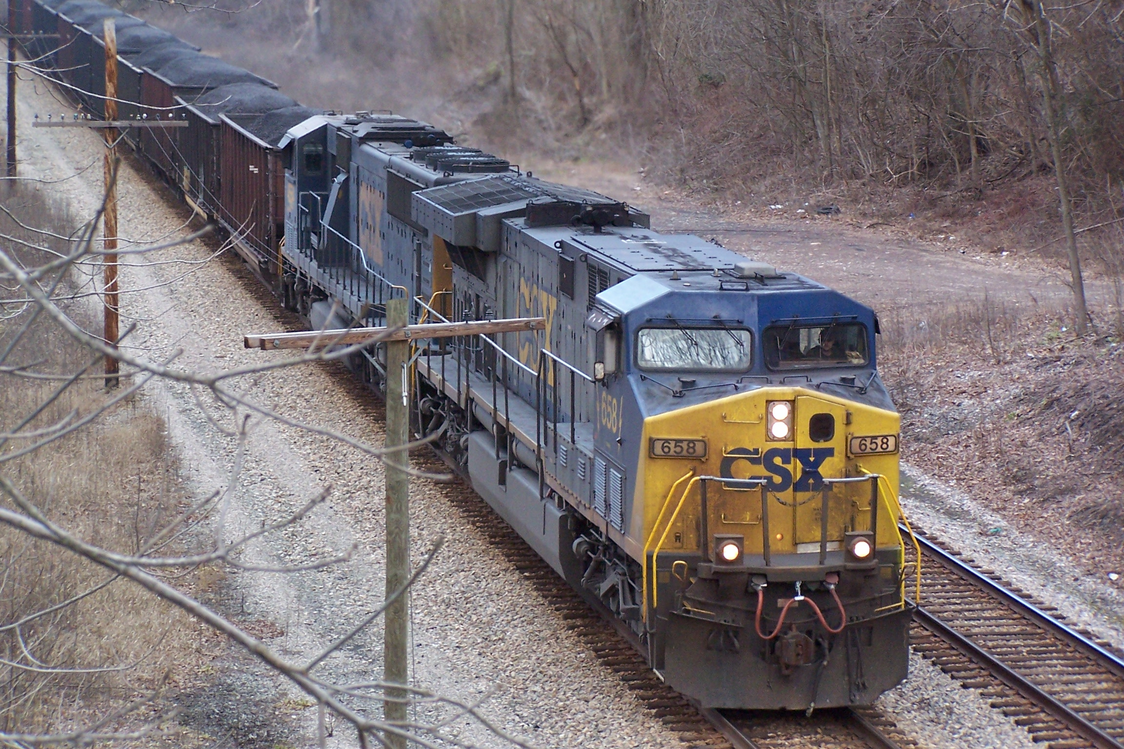 CSX # 658 in the New River Gorge in WV. GE AC6000CWMore AC Power